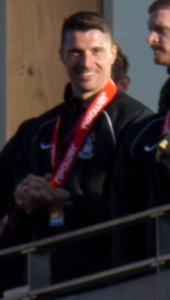 Matt Duke. Image cropped from original at flickr.